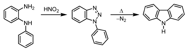 Graebe-Ullman synthesis scheme